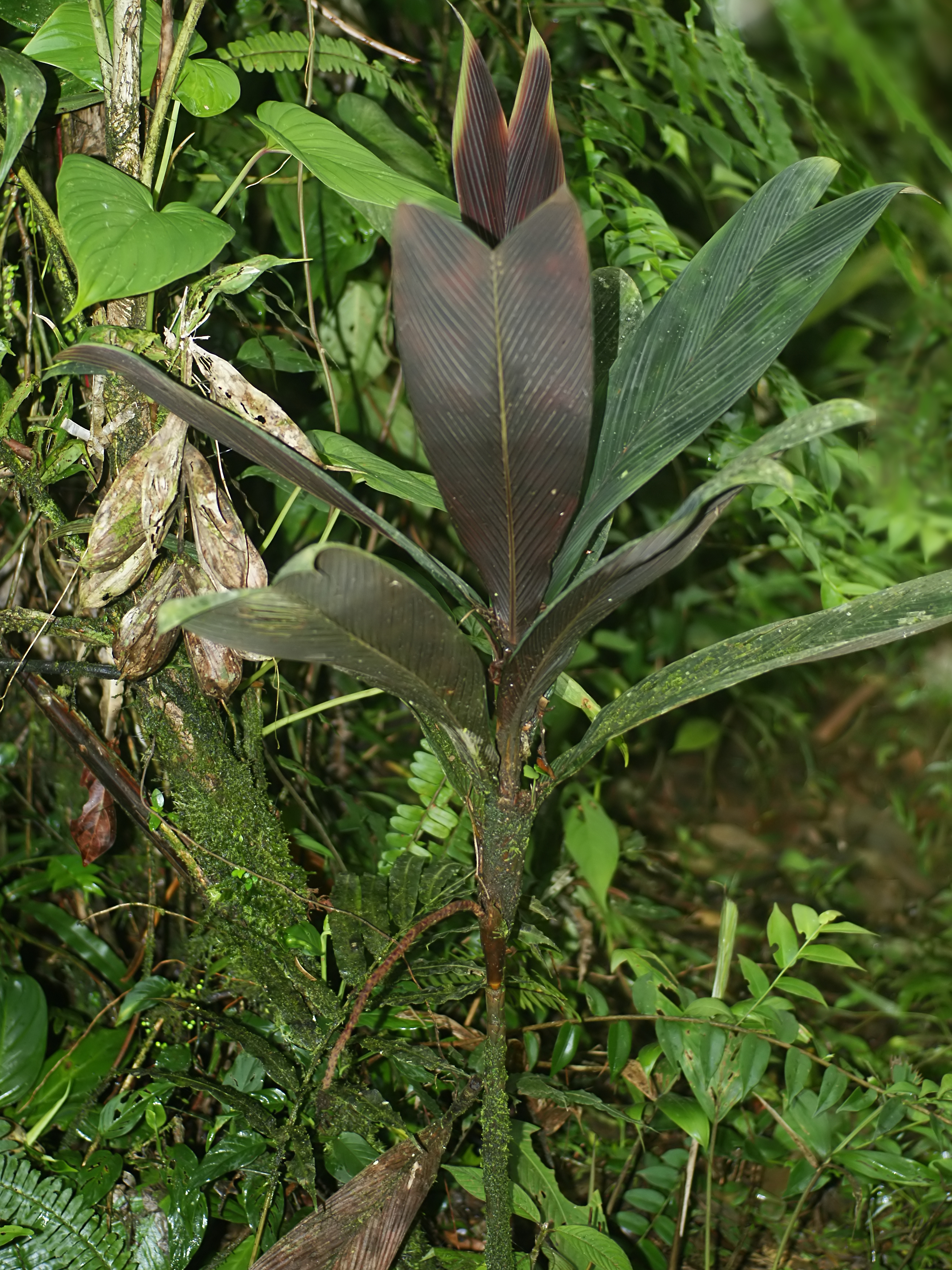 Stained Glass Palm at Rara Avis near Las Horquetas, Costa Rica